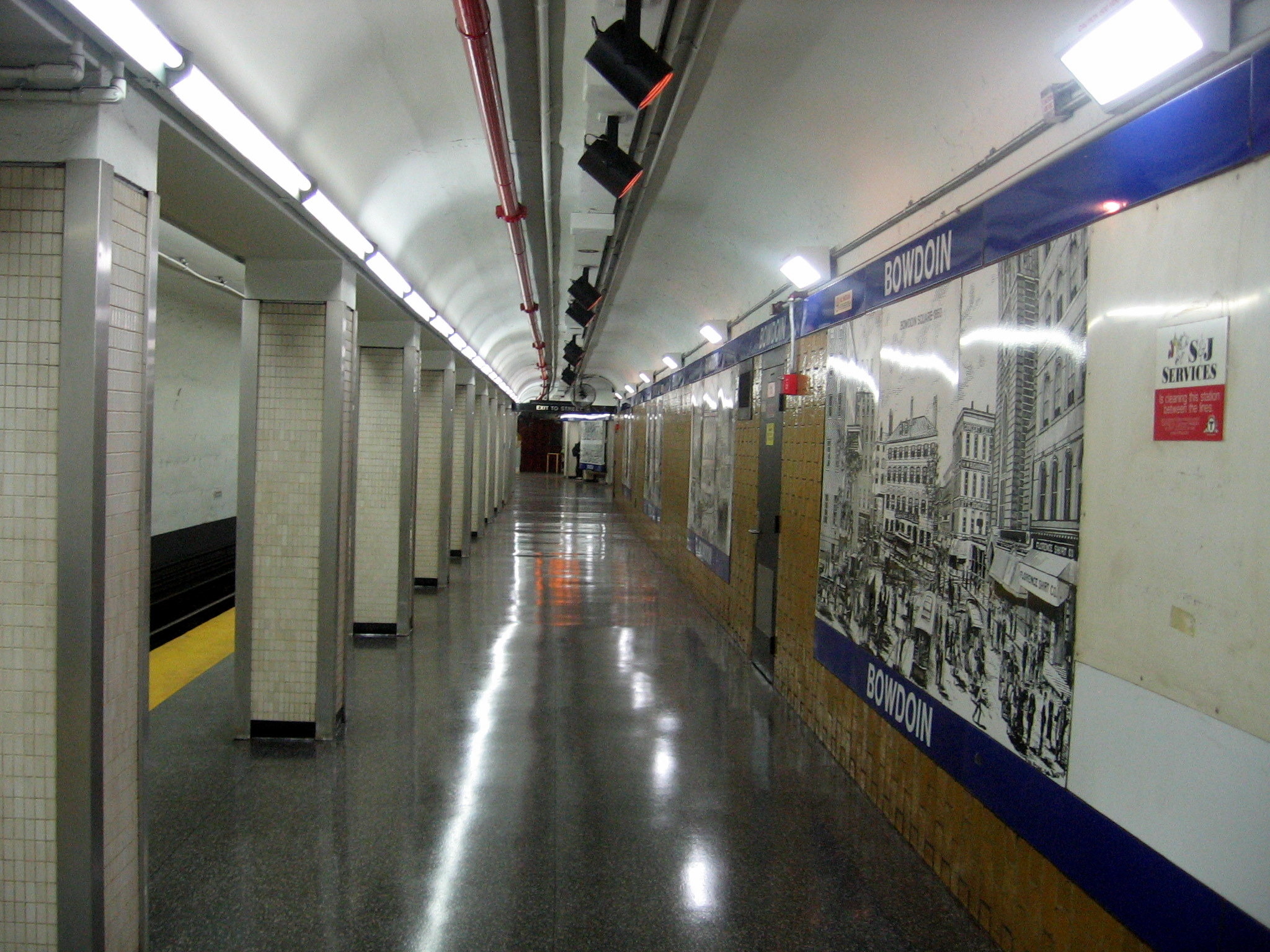 Terminating (inbound) side of the platform at Bowdoin, looking towards Government Center